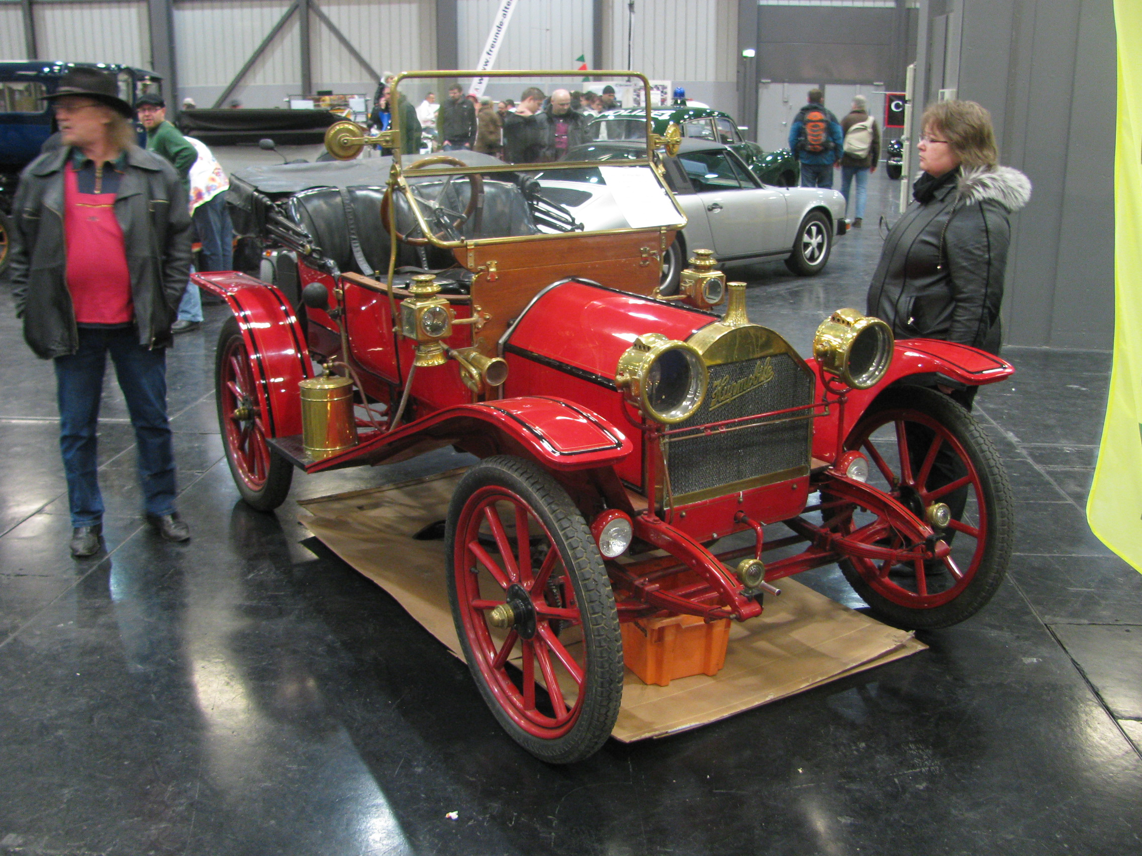 Hupmobile Type 20 Roadster from 1910. Four-cylinder engine, displacement 2 900 cm³, output 20 hp. Top speed 60 km/h. MotoTechnica Augsburg 2012.